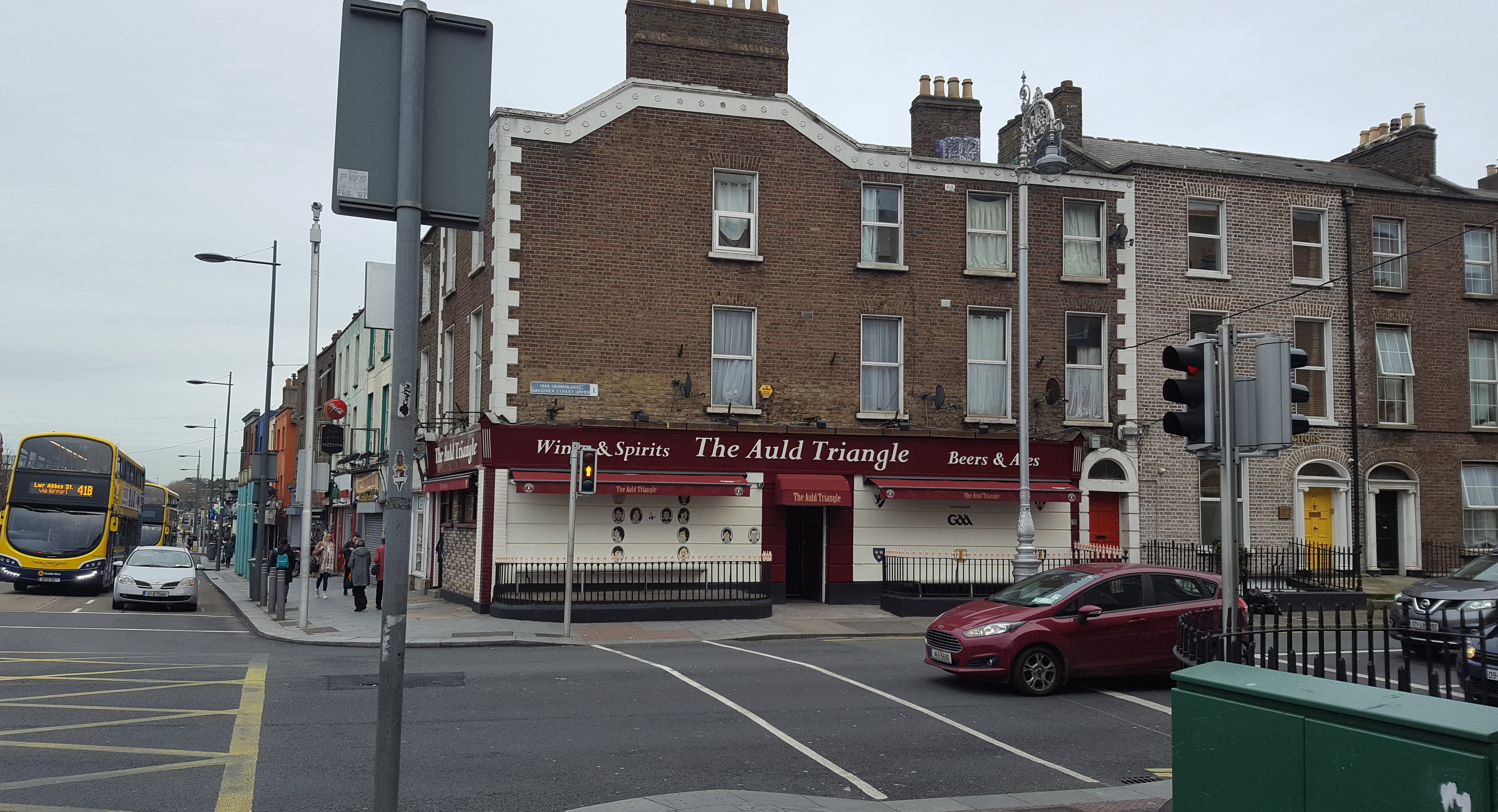 Before circa 1975 the pub was called (William) Bushe's. The pub takes its name from the triangle rung to signify points in the daily routine in the nearby Mountjoy Jail. The triangle was made famous in a very popular ballad called "The Auld Triangle". The song featured first in a play by Brendan Behan called The Quare Fellow (1954). Brendan credited his brother Dominic Behan for writing it. The triangle and the hammer to beat it are no longer used still but are on exhibit in the prison.